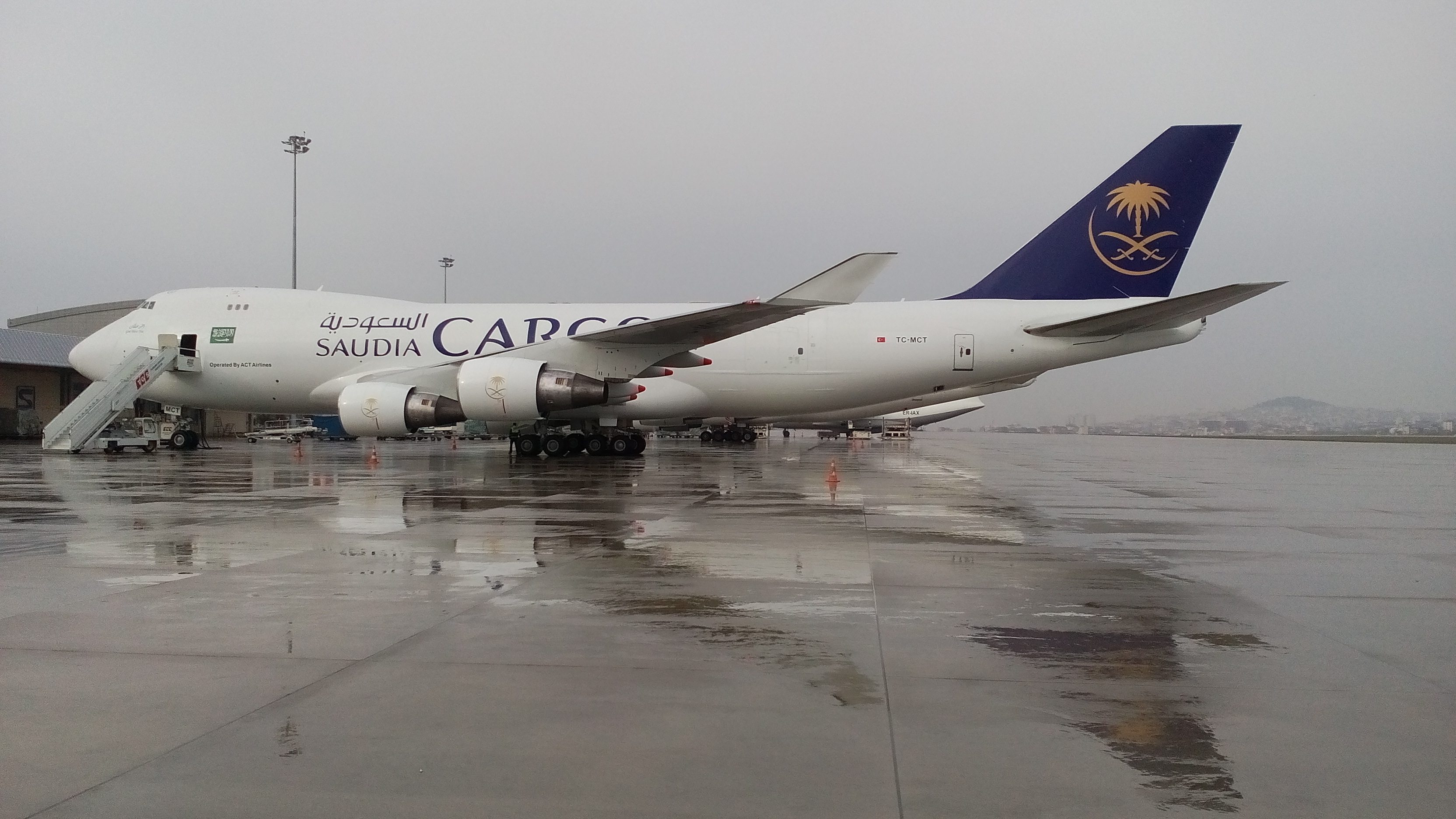 MyCargoFleet-B747